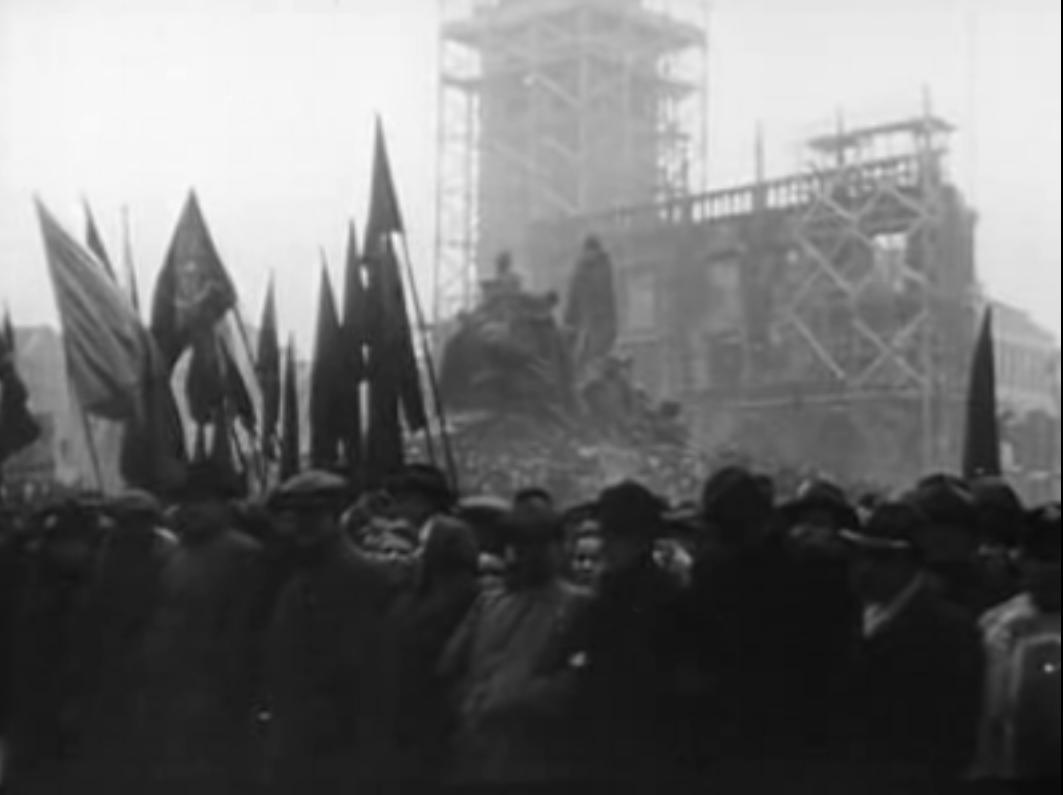 Old Town Hall in Prague, Czechoslovakia during February 48 communist coup. Personality rights warning Although this work is freely licensed or in the public domain, the person(s) shown may have rights that legally restrict certain re-uses unless those depicted consent to such uses. In these cases, a model release or other evidence of consent could protect you from infringement claims.